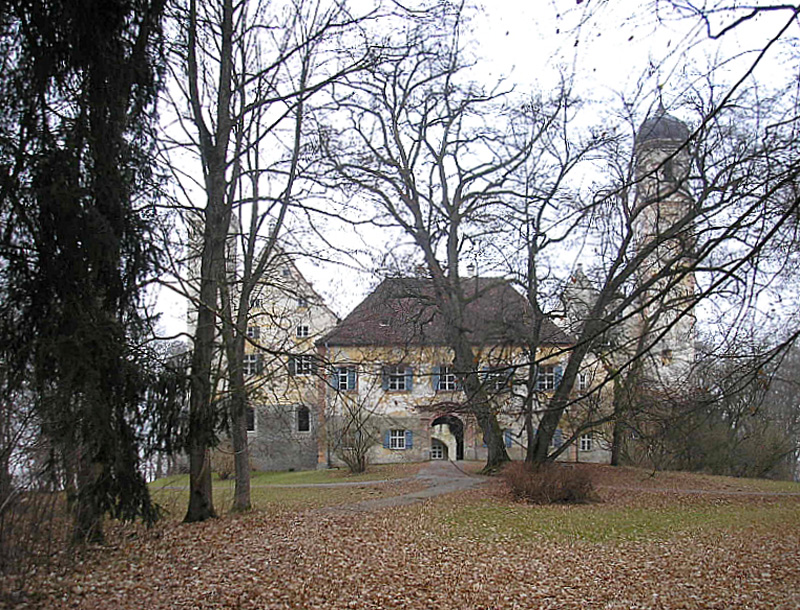 Hofhegnenberg Castle near Mering (Steindorf, Landkreis Aichach-Friedberg, Bavaria, Germany). View from east. Own photo, Jan. 2008.